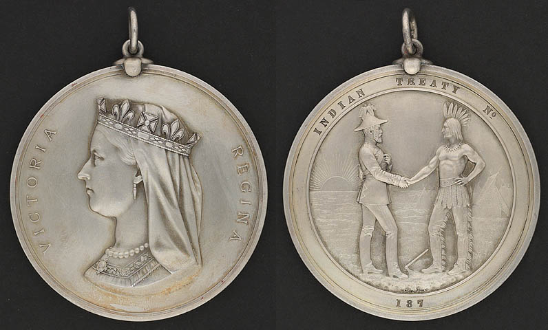 Both sides of a commemorative coin, Indian Chiefs Medal, presented to commemorate Treaty Numbers 3, 4, 5, 6, 7 of Queen Victoria.